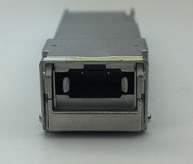 This is an MPO connector on a 40GB QSFP.